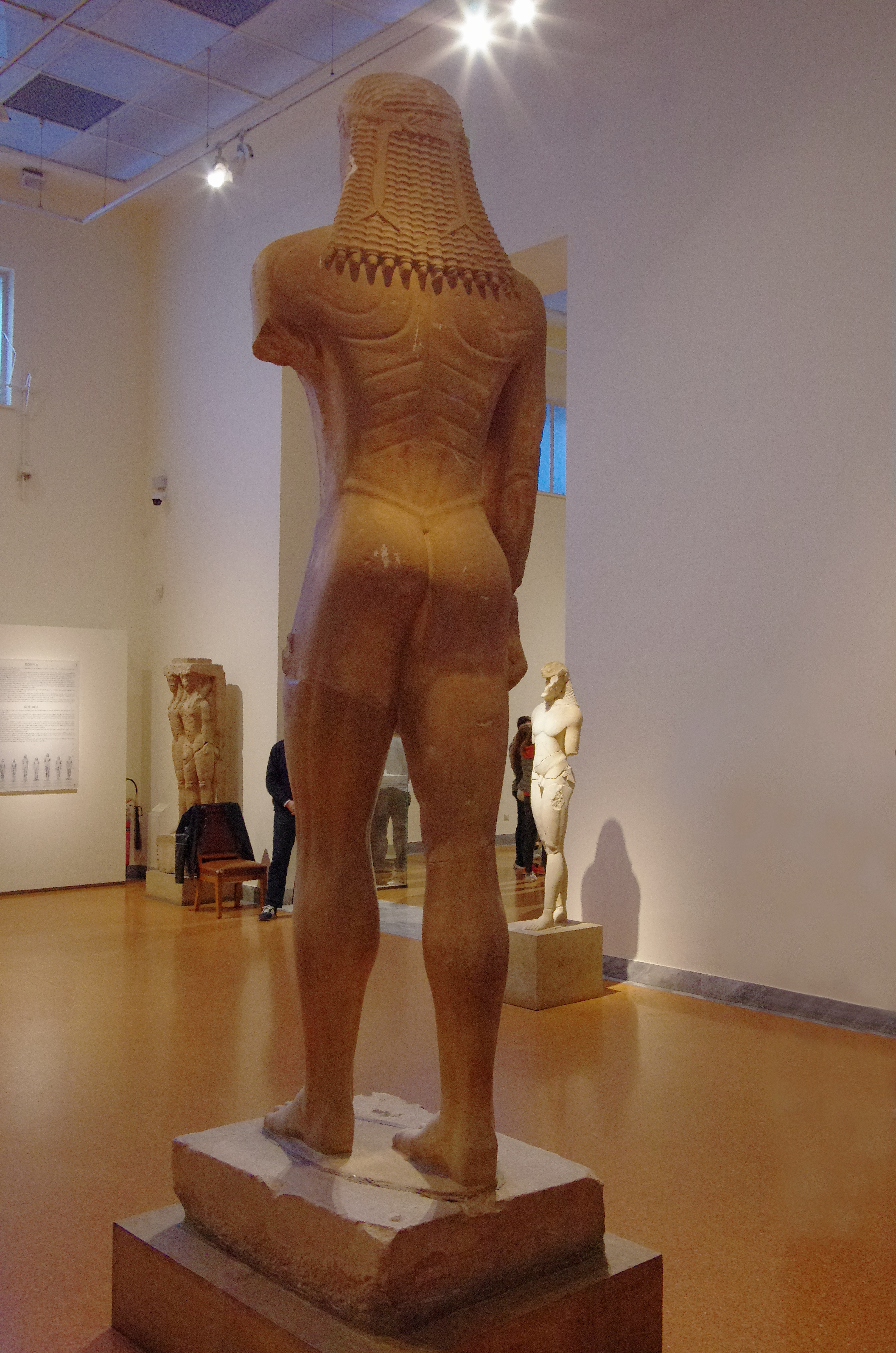 02 2020 Grecia photo Paolo Villa (Museo archeologico di Atene) Kouros di Capo Sunio (retro), dal Santuariodi Poseidone a Sunio, 590-580 a.C., Arte Greca Arcaica, persone rimosse, correzione luci 02 2020 Greece photo Paolo Villa (Archaeological Museum of Athens) Cape Sounion kouros (behind) from the Sanctuary of Poseidon at Sounion, 590-580 BC, Greek Arcaic Art, delete people, light correction PAOLO VILLA VERONA ITALY (first edition )